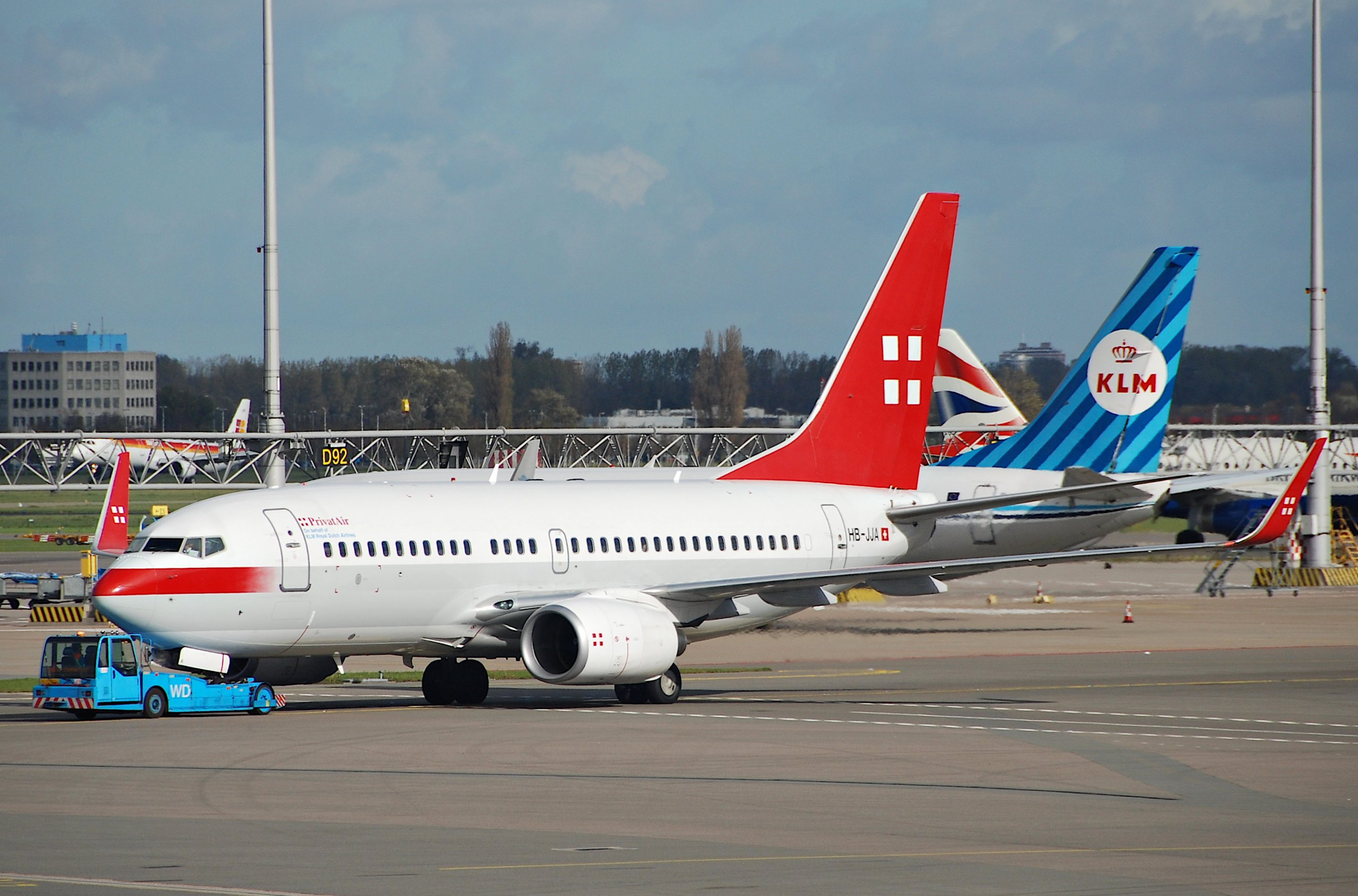 Privatair Boeing 737-700; HB-JJA@AMS;18.10.2011/627ci